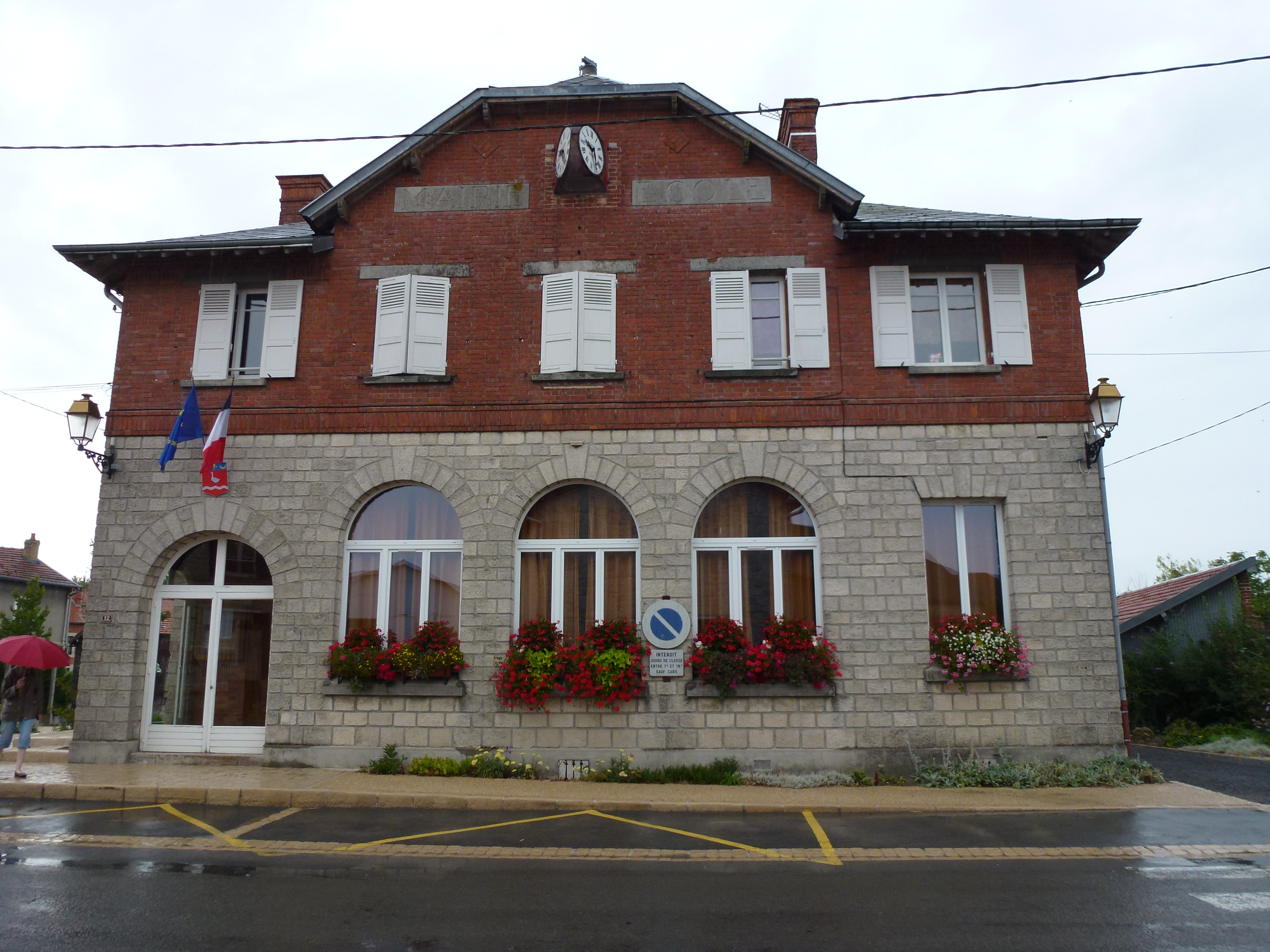 Givry (Ardennes) mairie - école